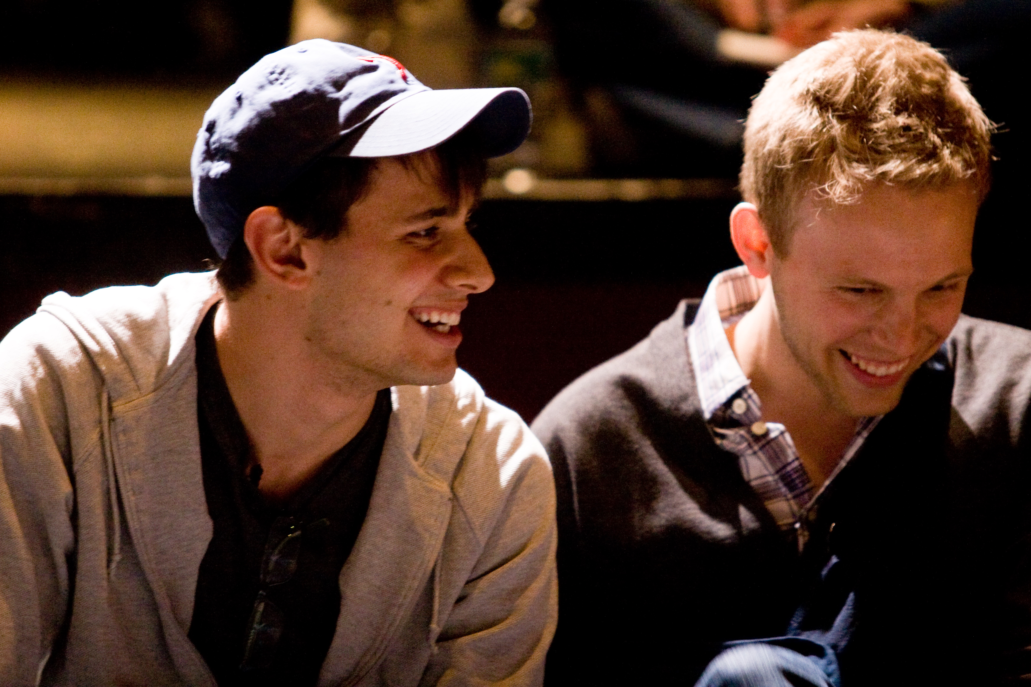 Tony nominees Benj Pasek and Justin Paul